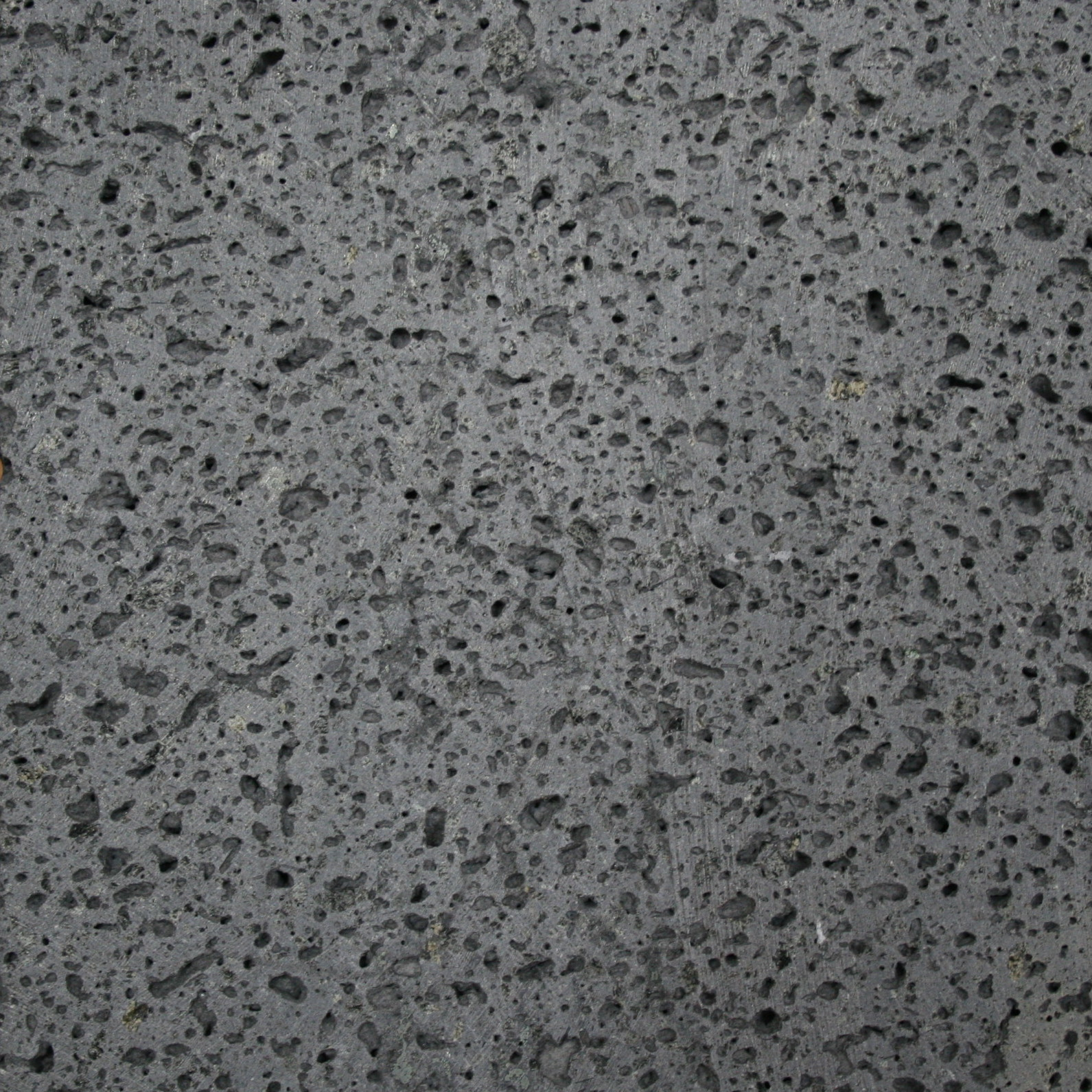 Leucite tephrite lava, ("Mayener Basalt lava" building stone) from Mayen, East Eifel, Germany